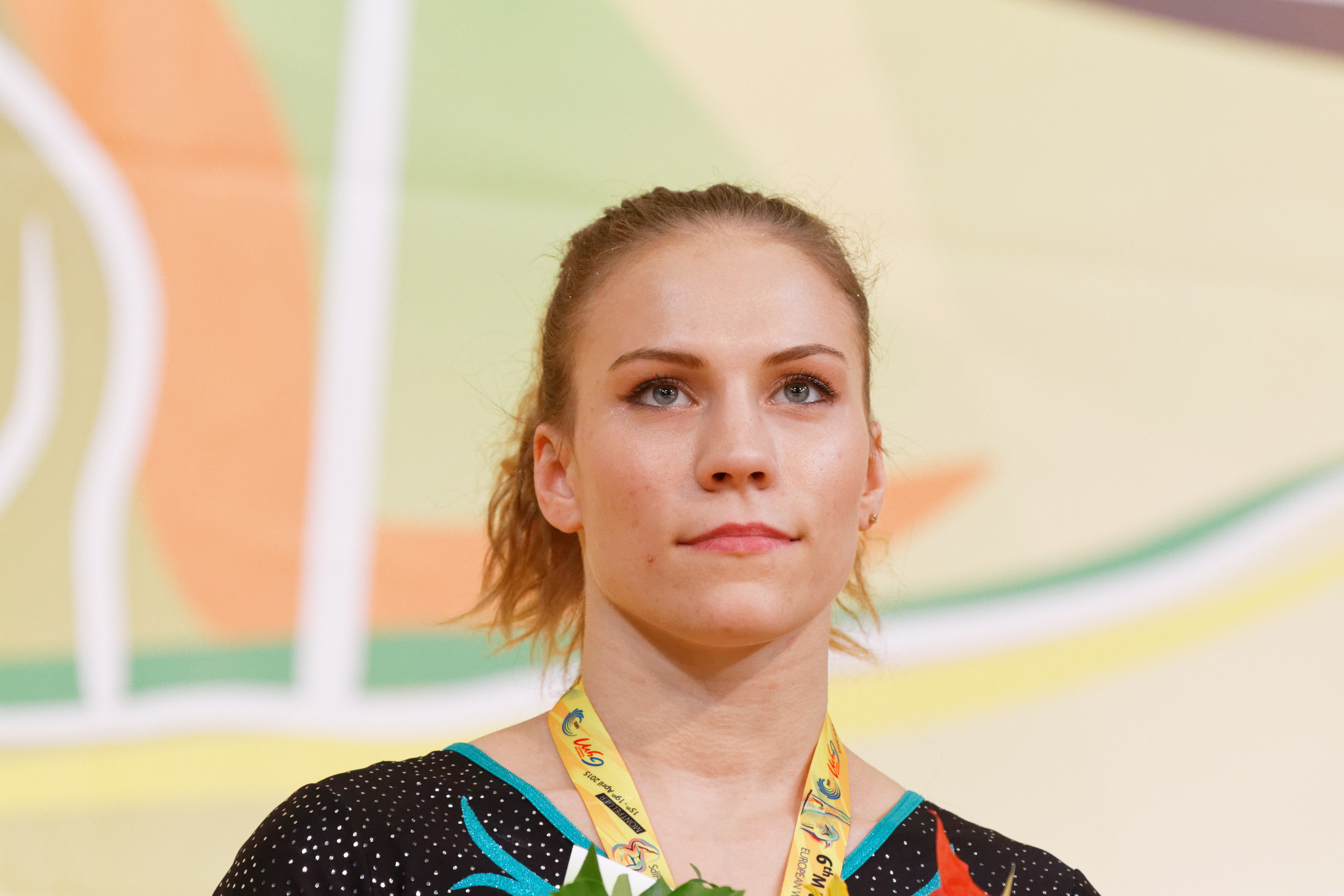 2015 European Artistic Gymnastics Championships.